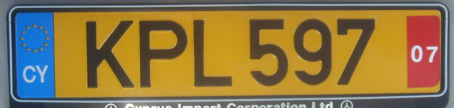 Licence plate of Cyprus 2004- (version for temporary use)